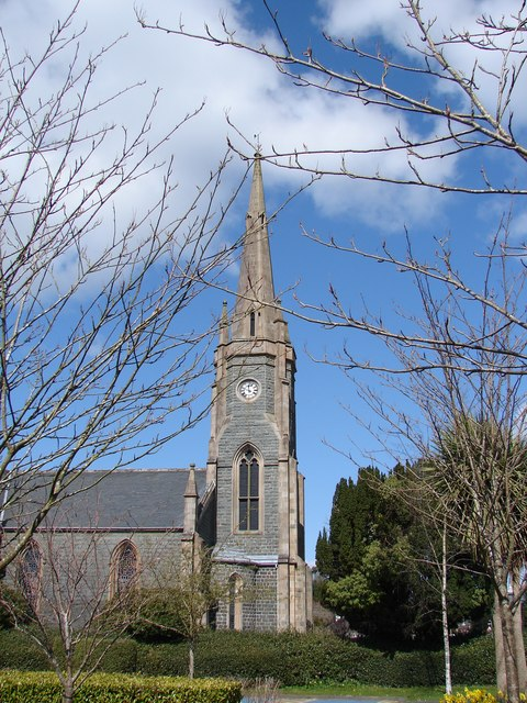 Penninghame Parish Church Penninghame St John’s Parish Church (1838-40): Large steepled Gothic, one of the earliest of its type in Scotland. Glass replaced 1996 and tower clock restored 2004.